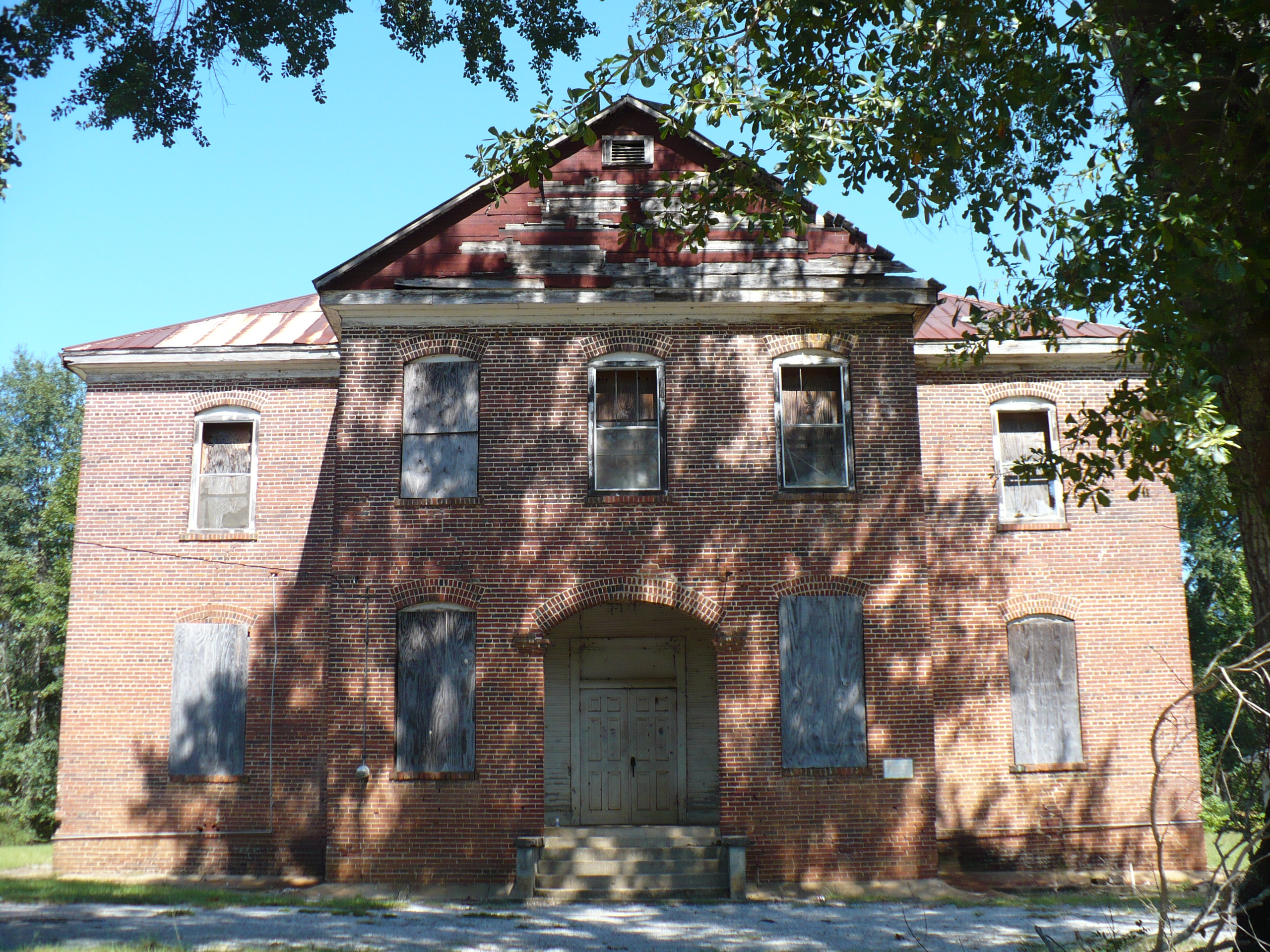 The Thomaston Colored Institute, also known as the Thomaston Academy, in Thomaston, Alabama. Built in 1910.